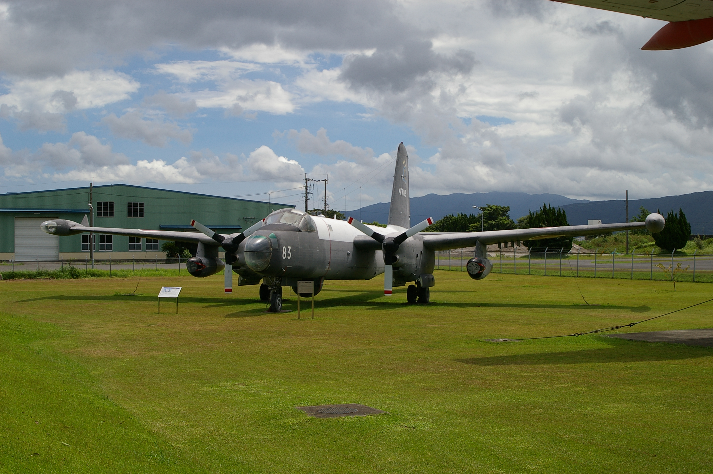 Antisubmarine patrol aircraft P-2J, upgrade and modified model for JMSDF based on P-2V. Displayed at Kanoya Air Base of JMSDF.